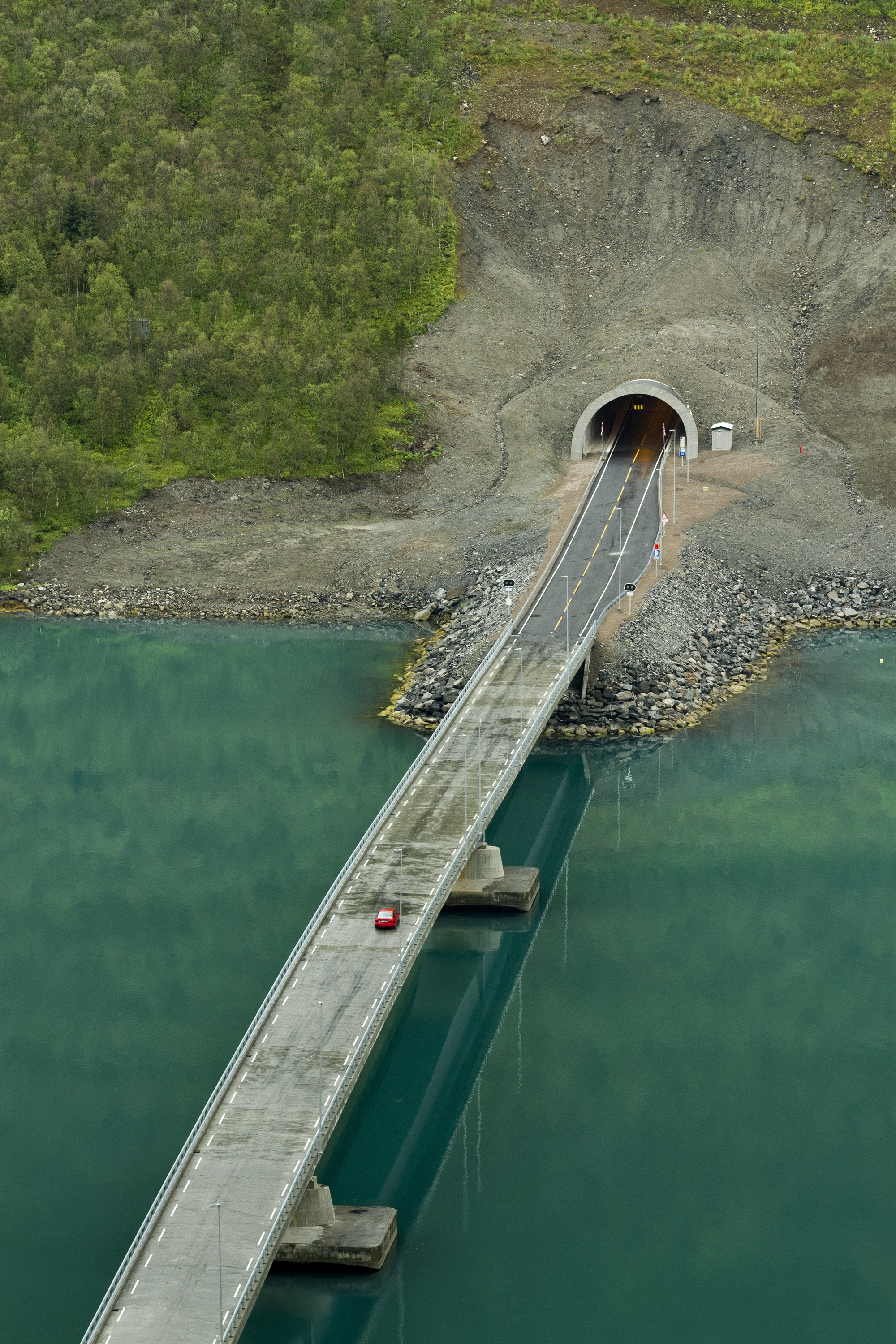 Fv86 road crossing Gryllefjorden into a tunnel in Torsken municipality, Senja, Troms, Norway in 2014 August. It is a shortcut for an older section of the road which circumvents the fjord from its far end and crosses the Ballesvikskaret mountain pass.